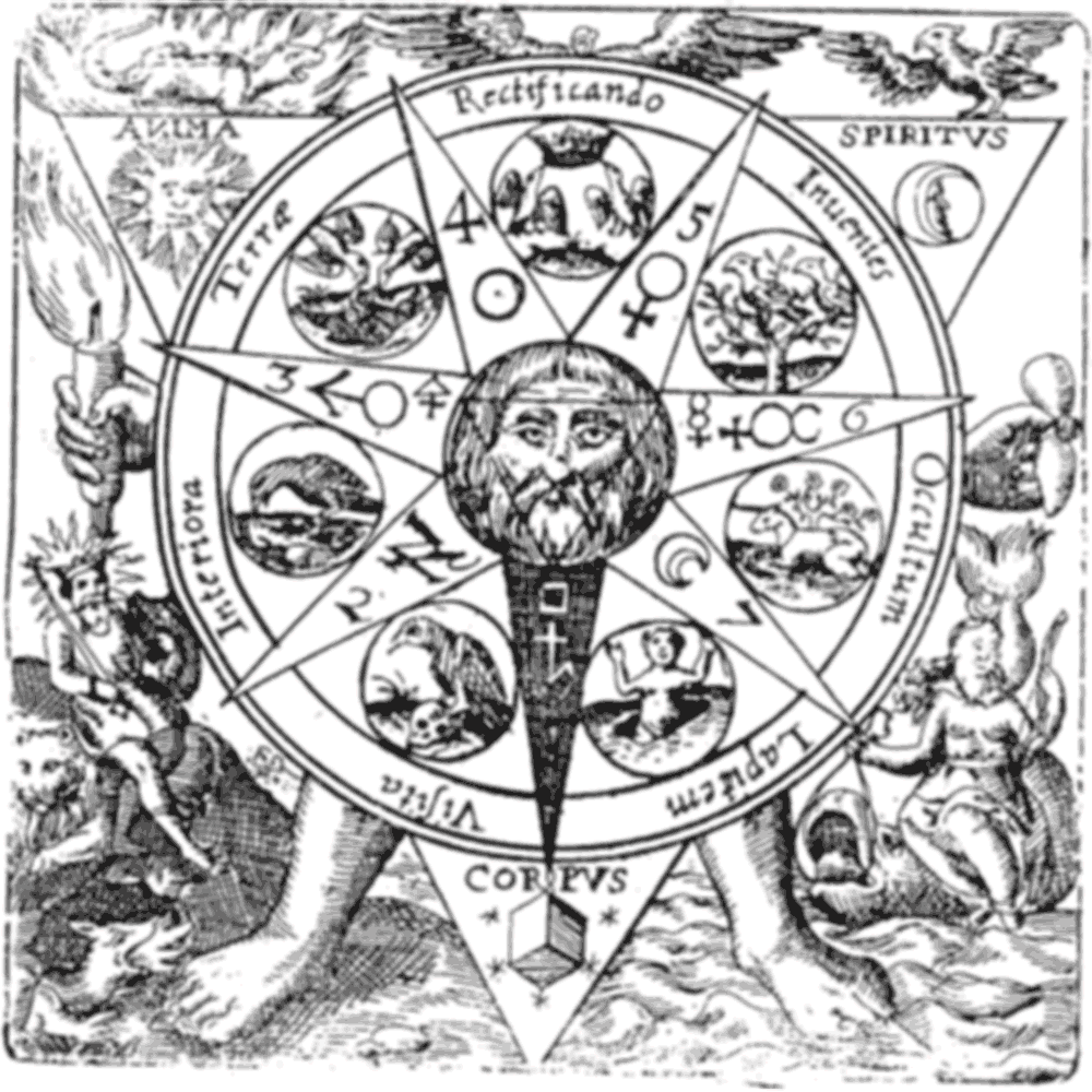 Anagrammatical, alchemical figure representing "Vitriol" here taken to stand for Visita interiora terrae; rectificando invenies occultum lapidem ("Visit the interior parts of the earth; by rectification you will find the hidden stone".) This from Stolzius von Stolzembuirg, Theatrum Chymicum, 1614.